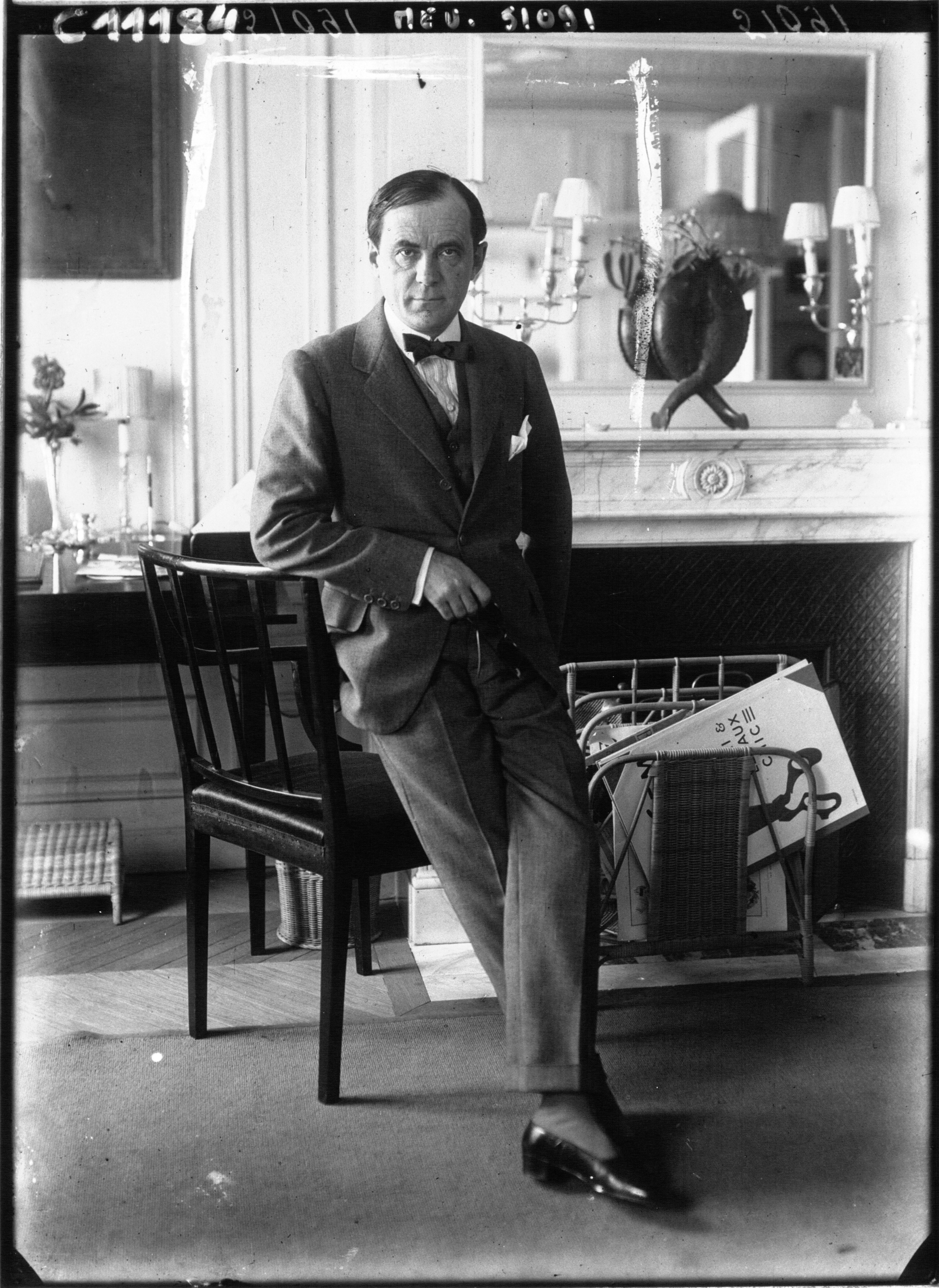 Photograph of Georges Goursat. Caption:"M. Sem, caricaturiste : portrait"